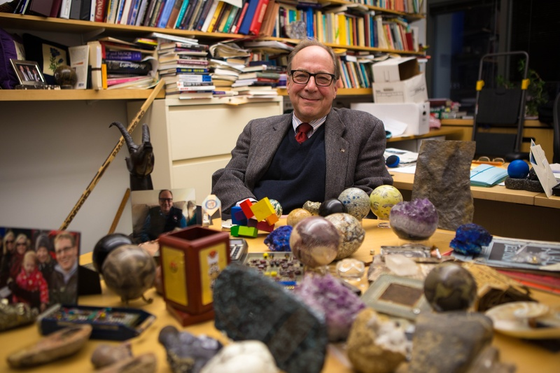 Gordon McKay Professor of Computer Science Harry R. Lewis in his office in Maxwell Dworkin Hall, Harvard John A. Paulson School of Engineering and Applied Sciences